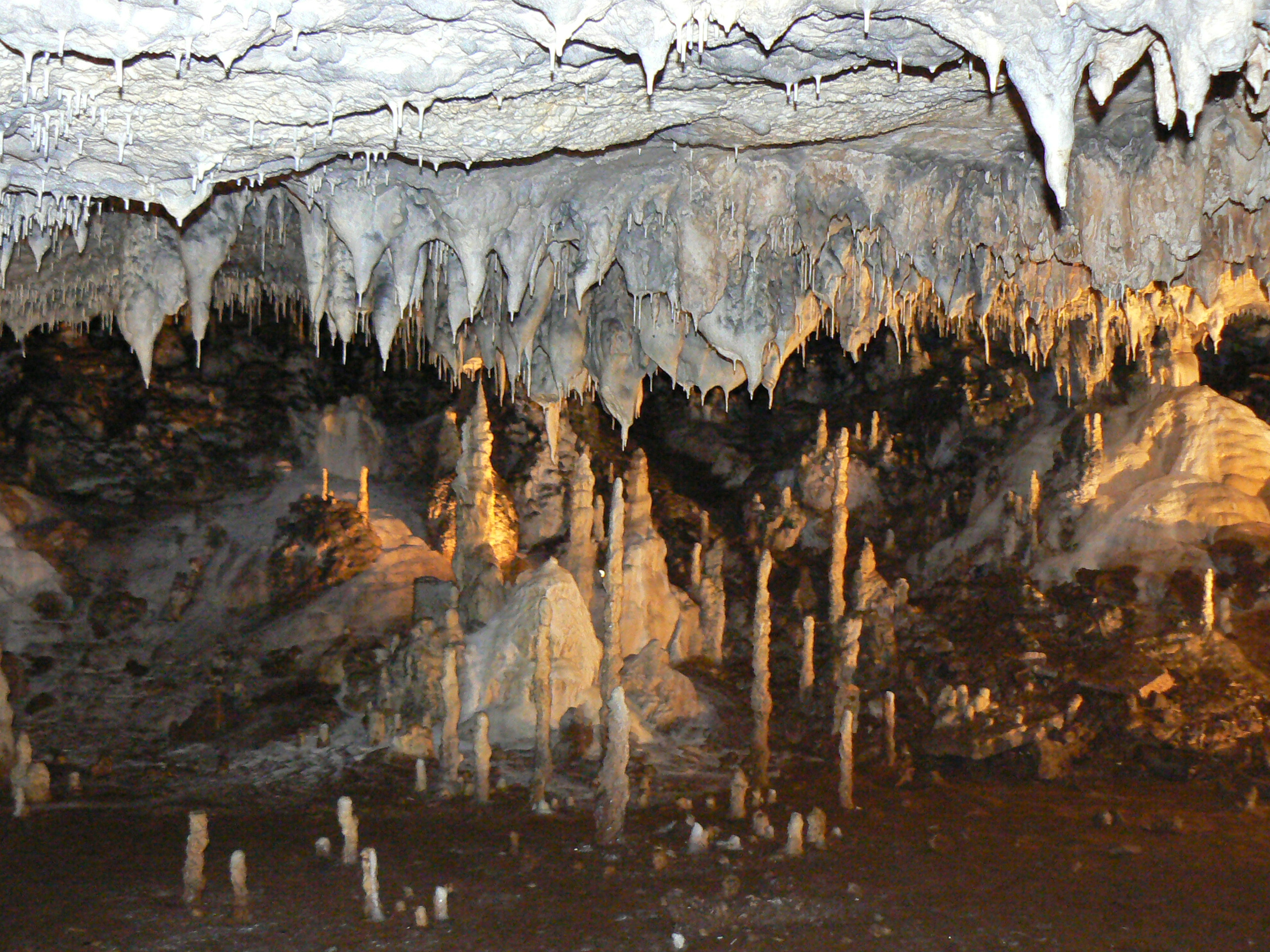 One of the many picturesque niches in the Snejanka Cave, Bulgaria.